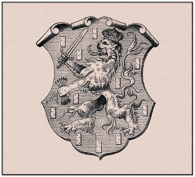 Royal Netherlands Society for Genealogy and Heraldry